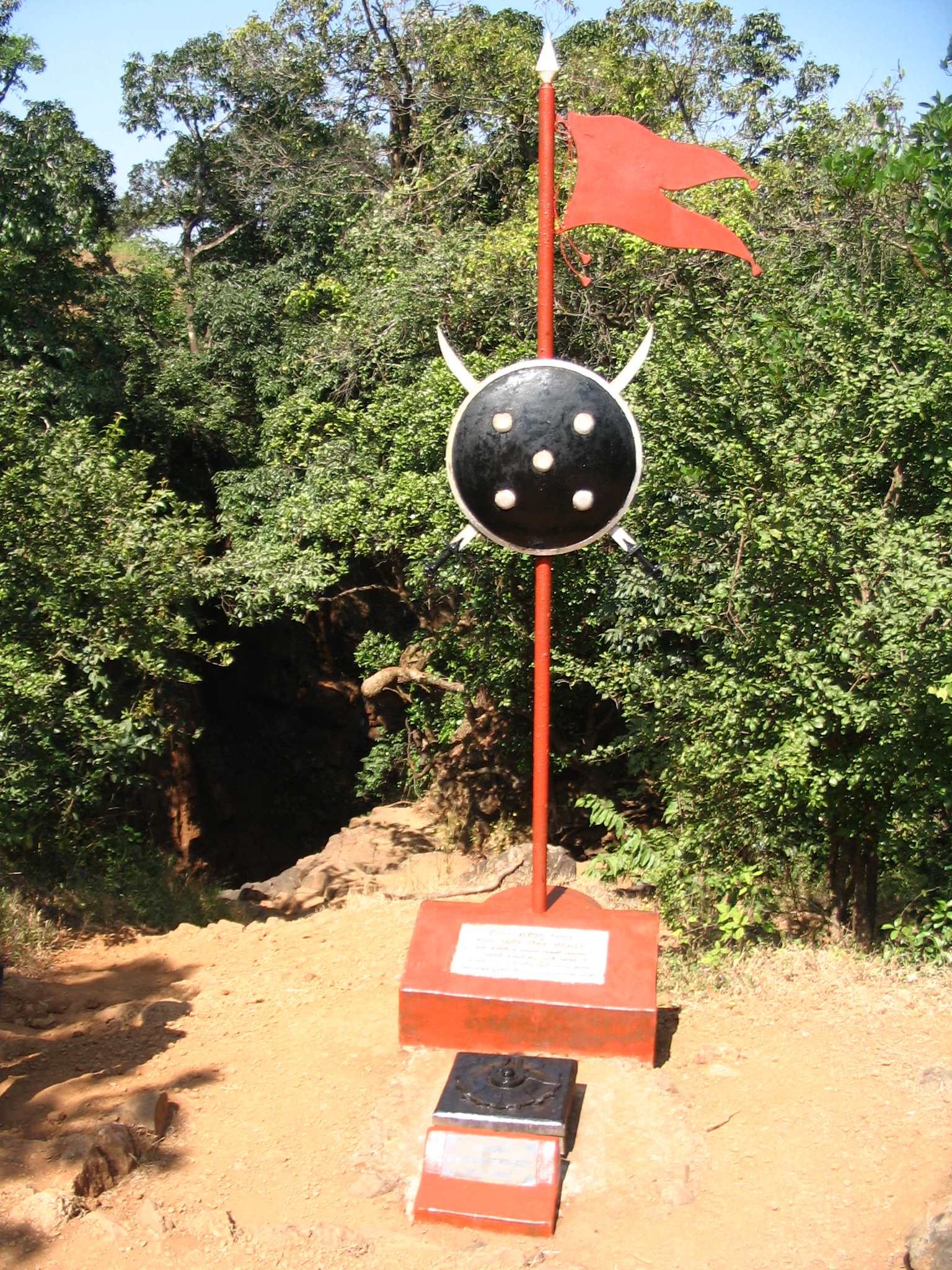 Plaque to commemorate the entrance to Pavankhind.